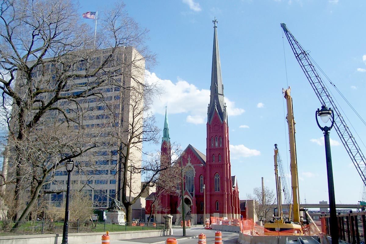 Copyright © 2006 Sulfur Calvary Presbyterian Church is located in the historic Marquette University district of downtown Milwaukee, Wisconsin.